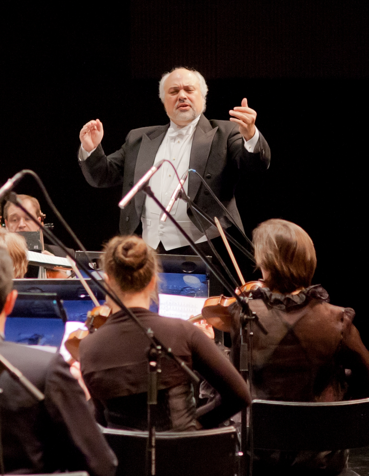 Constantine Orbelian - the famous conductor and pianist